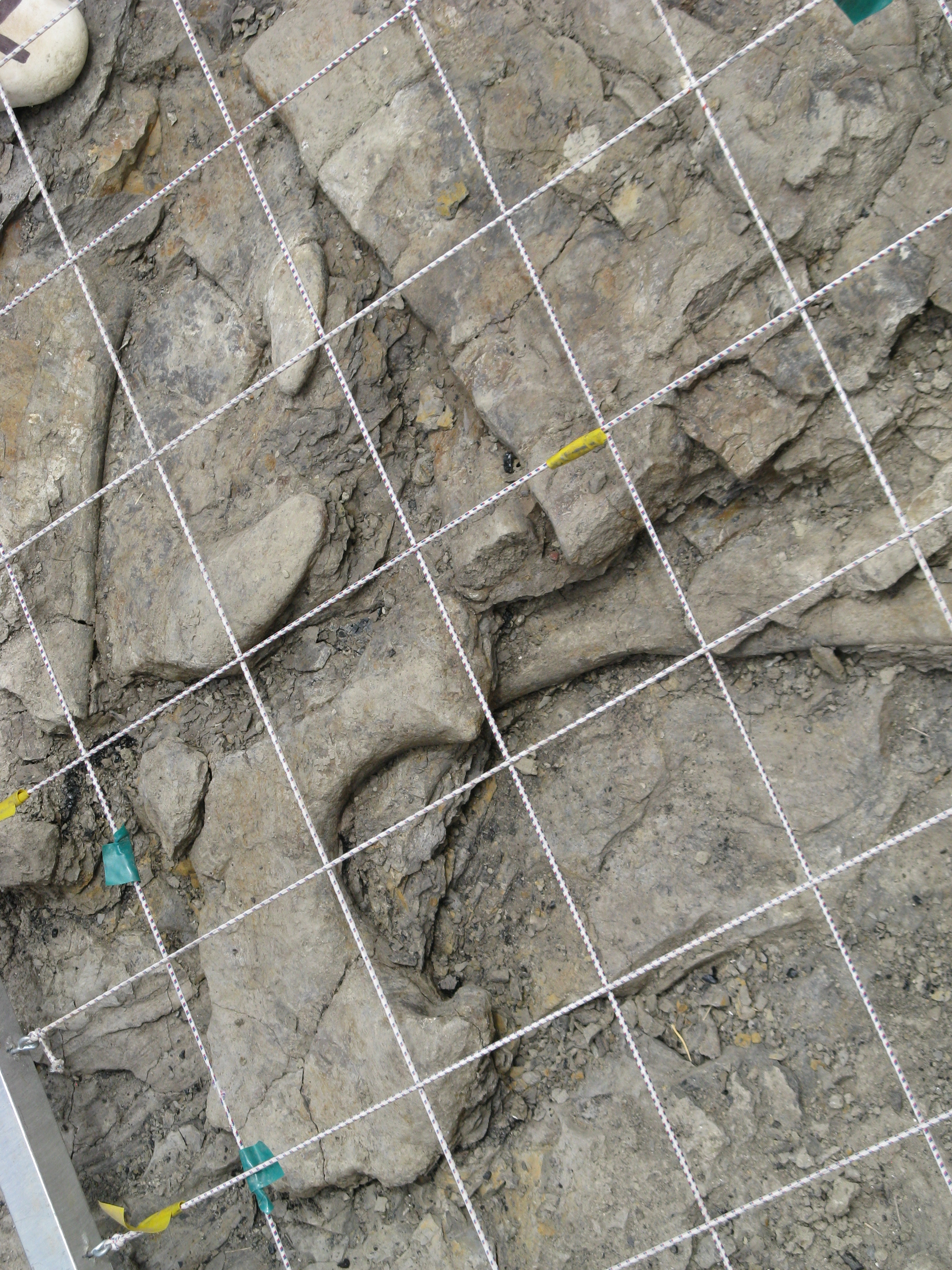 Pipestone creek bonebed with gridlines to map out quarry